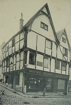 Jacques Cœur house